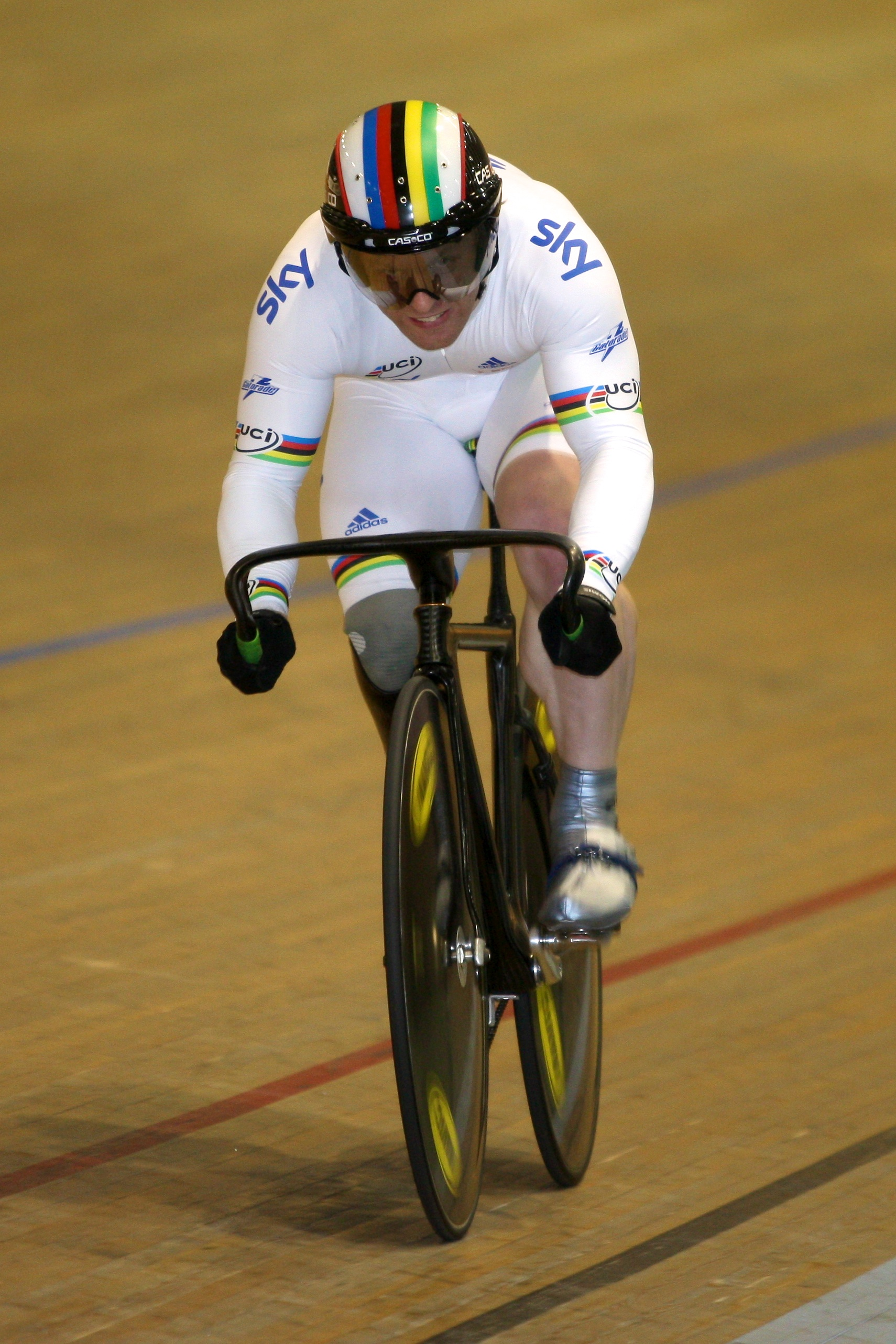 Jody Cundy at Newport GP 2010